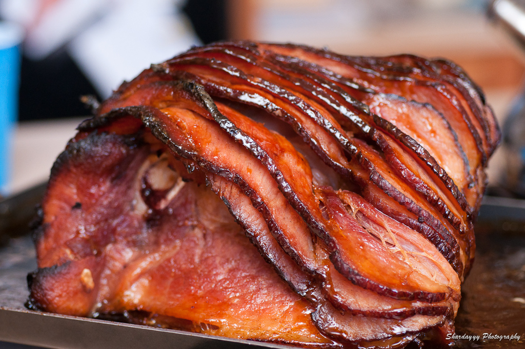 Homemade honey glazed ham